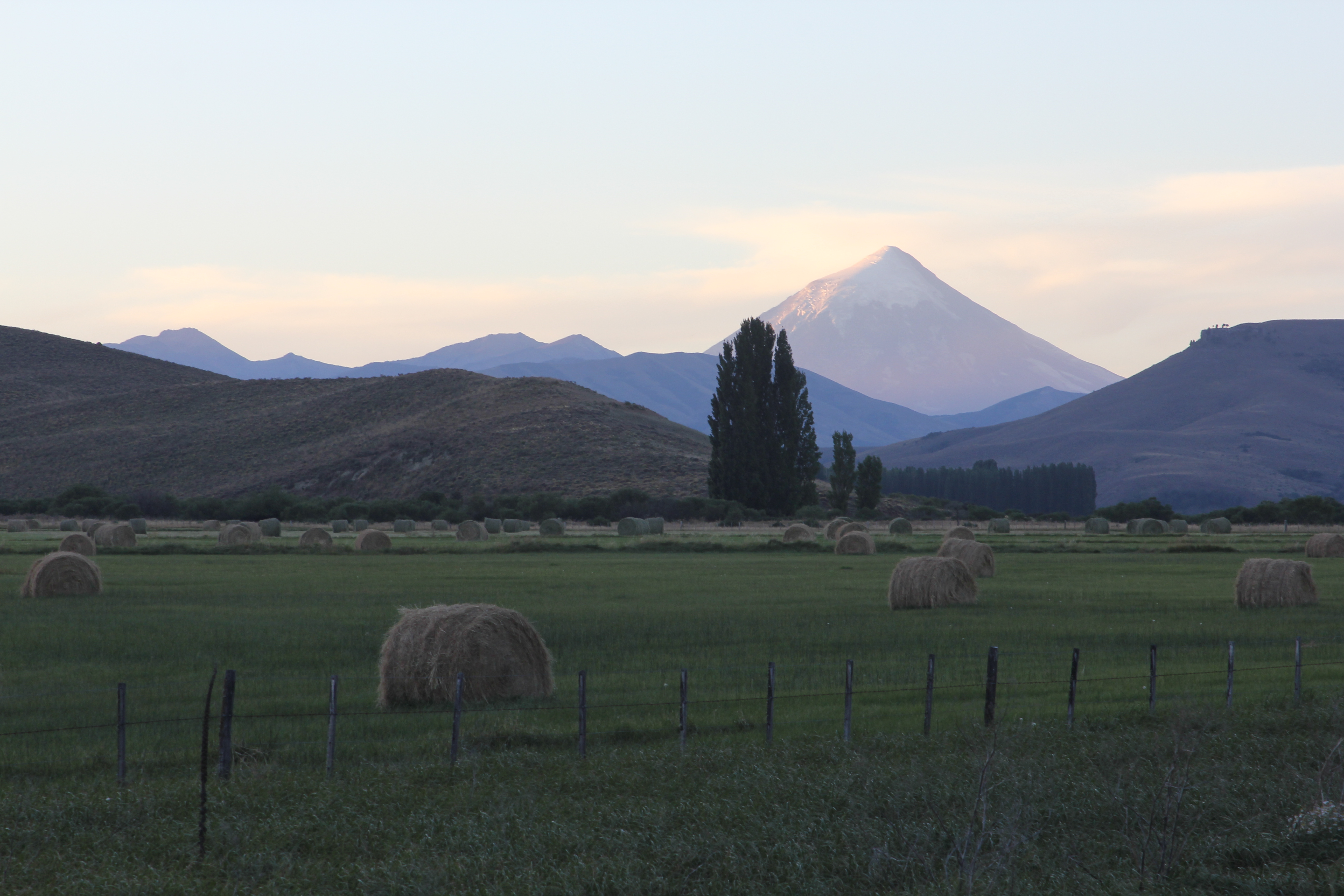 volcan Lanin